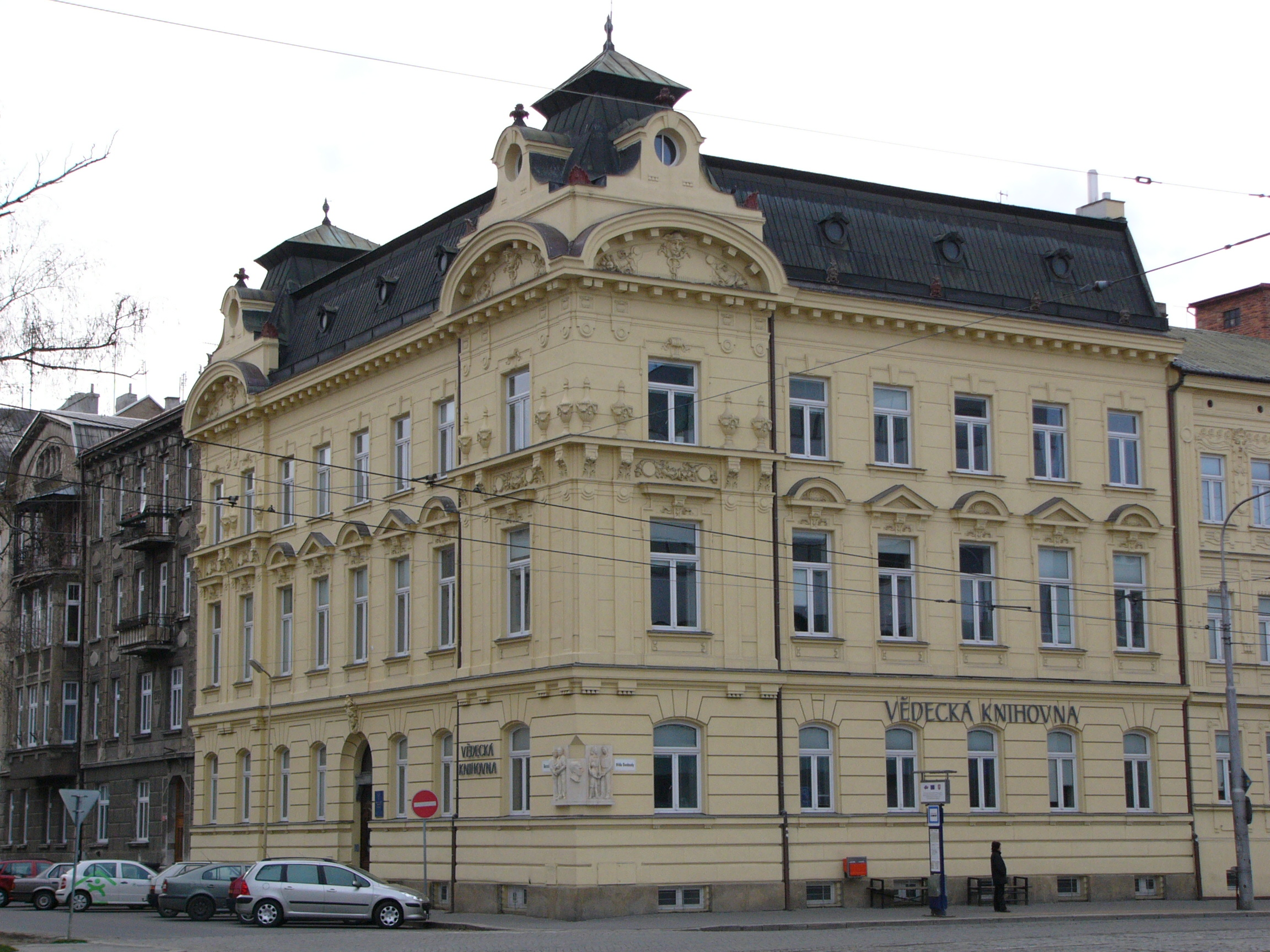 Scientific library in Olomouc